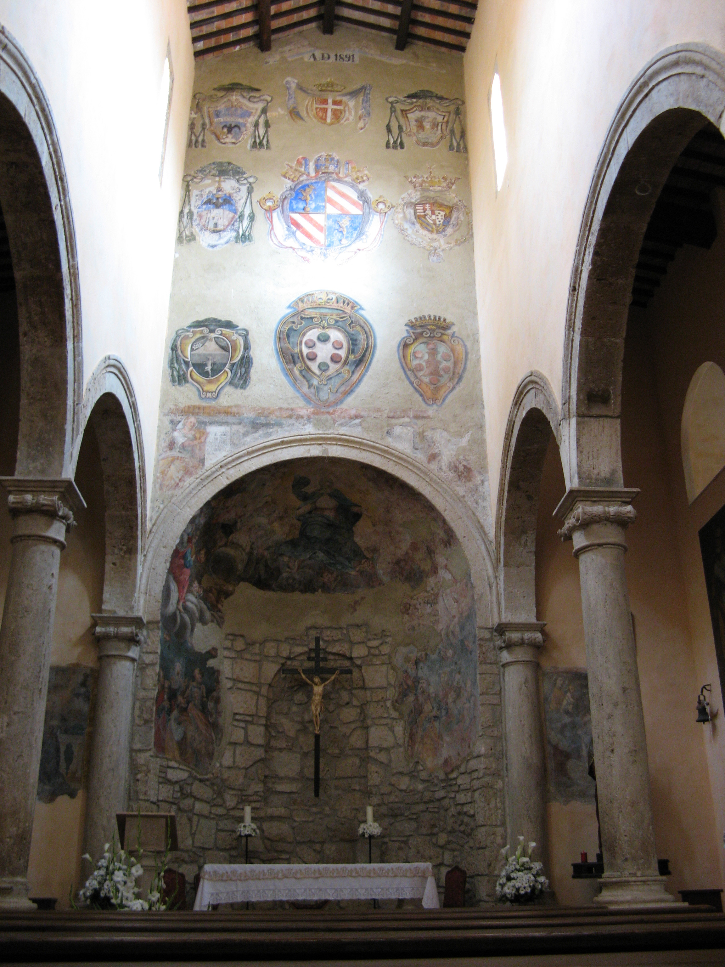 Inside view of church of San Rocco in Pitigliano (Grosseto)